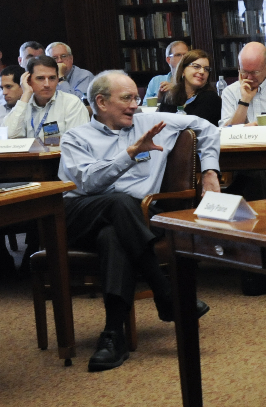 120816-N-LE393-023 NEWPORT, R.I. (August 16, 2012) John Lewis Gaddis, front left, the Robert A. Lovett professor of military and naval history at Yale University, speaks to U.S. Naval War College (NWC) faculty during the Teaching Grand Strategy workshop at the NWC. (U.S. Navy photo by Mass Communication Specialist 2nd Class Eric Dietrich/Released)